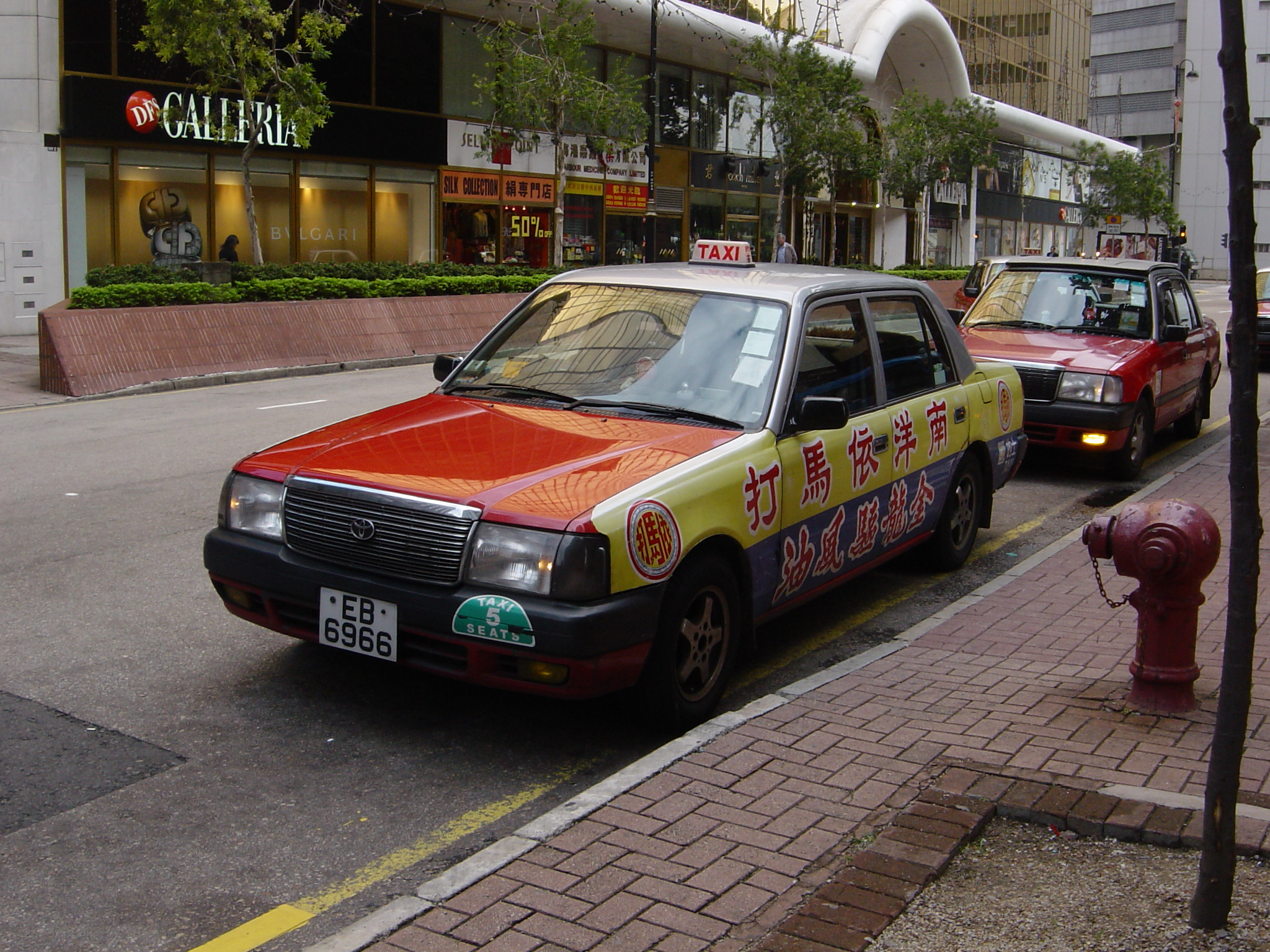 香港的士的車身廣告。The advertisement on Hong Kong taxi, Hong Kong.